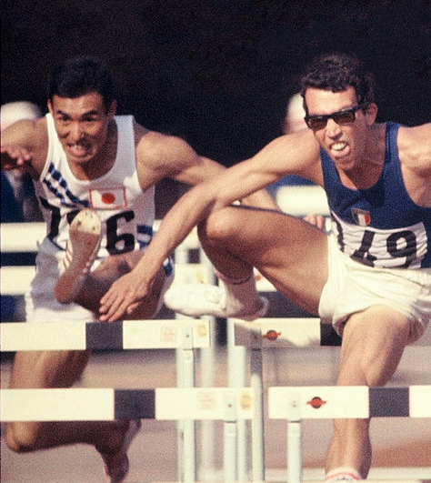 Hirokazu Yasuda (1st L) of Japan and Giorgio Mazza (2nd L) compete in the Men's 110m Hurdles heat during the Tokyo Olympic at the National Stadium on October 17, 1964 in Tokyo, Japan